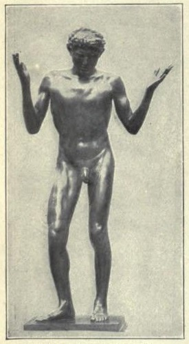 Statue of Lycidas (1902-08) by James Havard Thomas, haused in Tate Gallery of London.